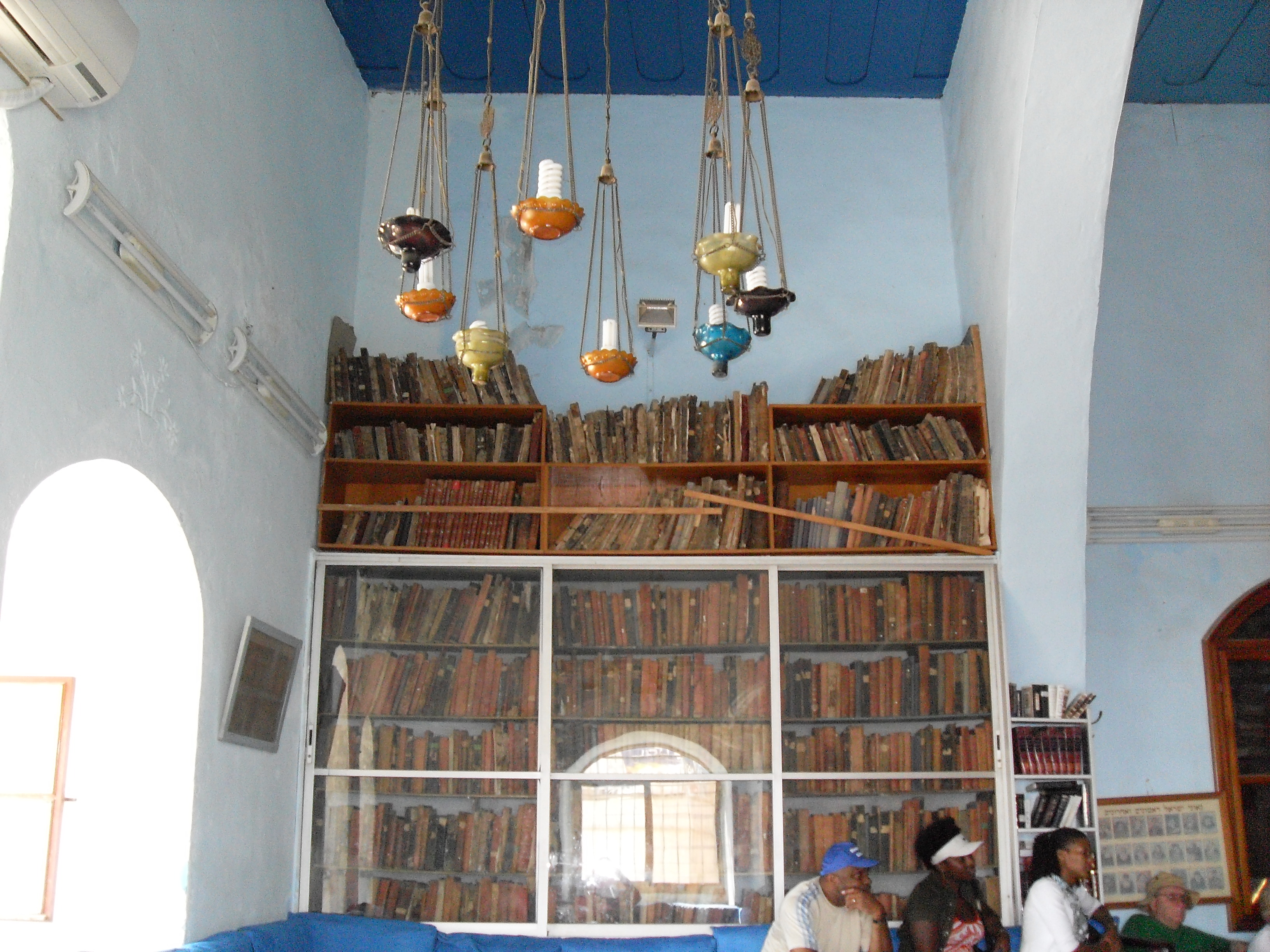 Israel Safed Caro synagogue library bookshelves